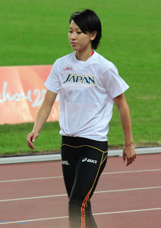 Chisato Fukushima at the 2010 Asian Games